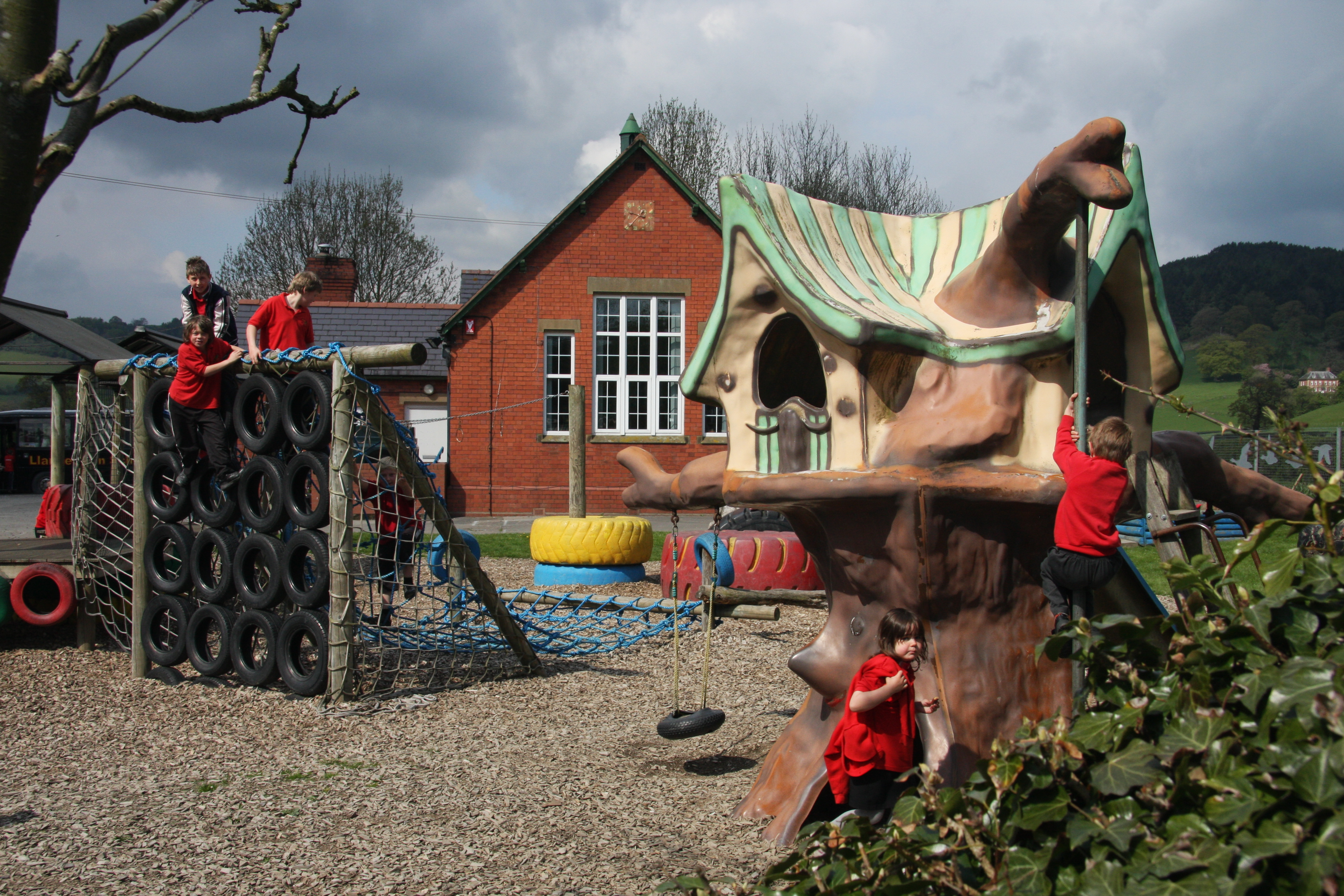 Photograph of Llangedwyn Church In Wales Primary School